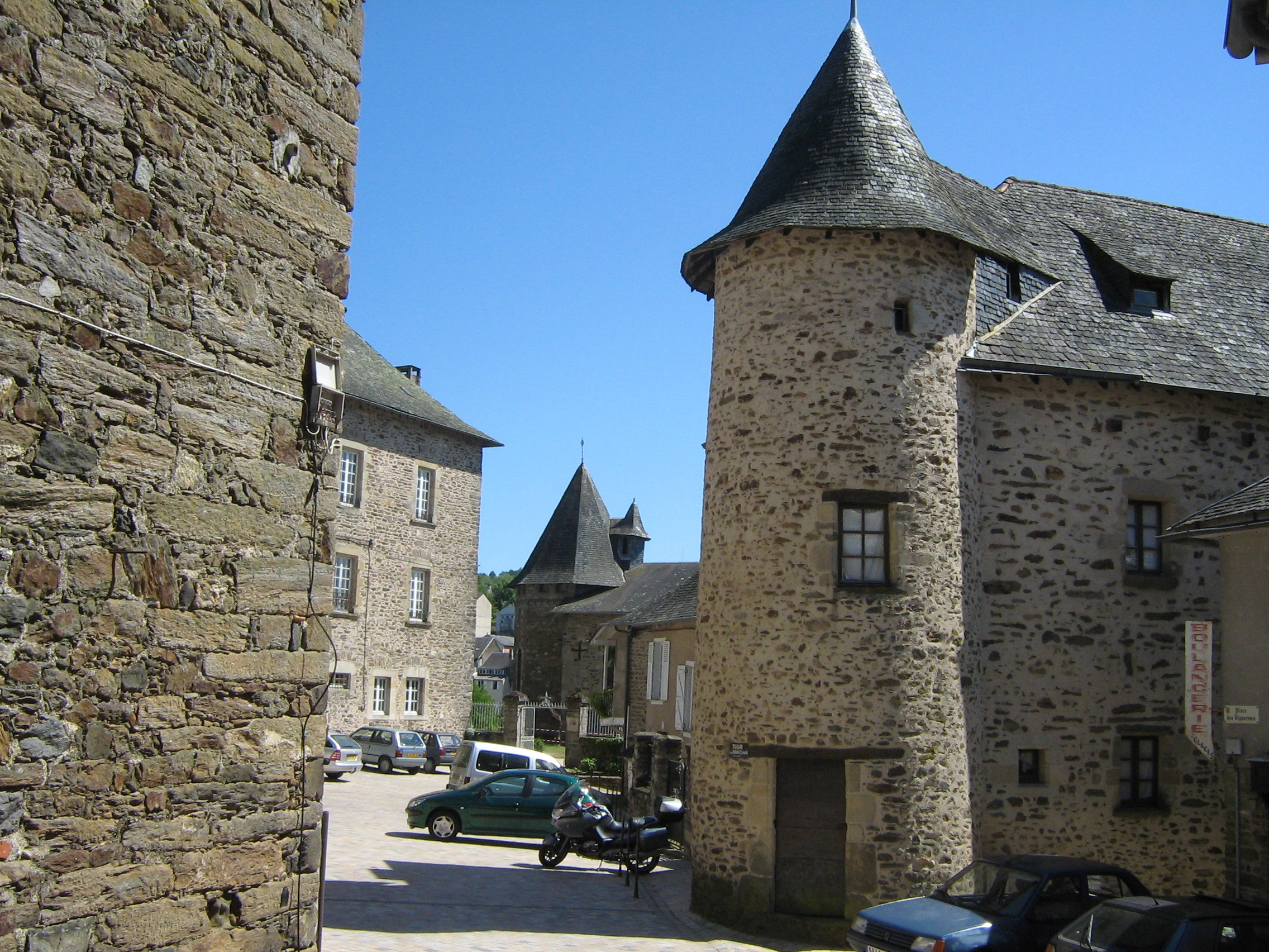 uzerche